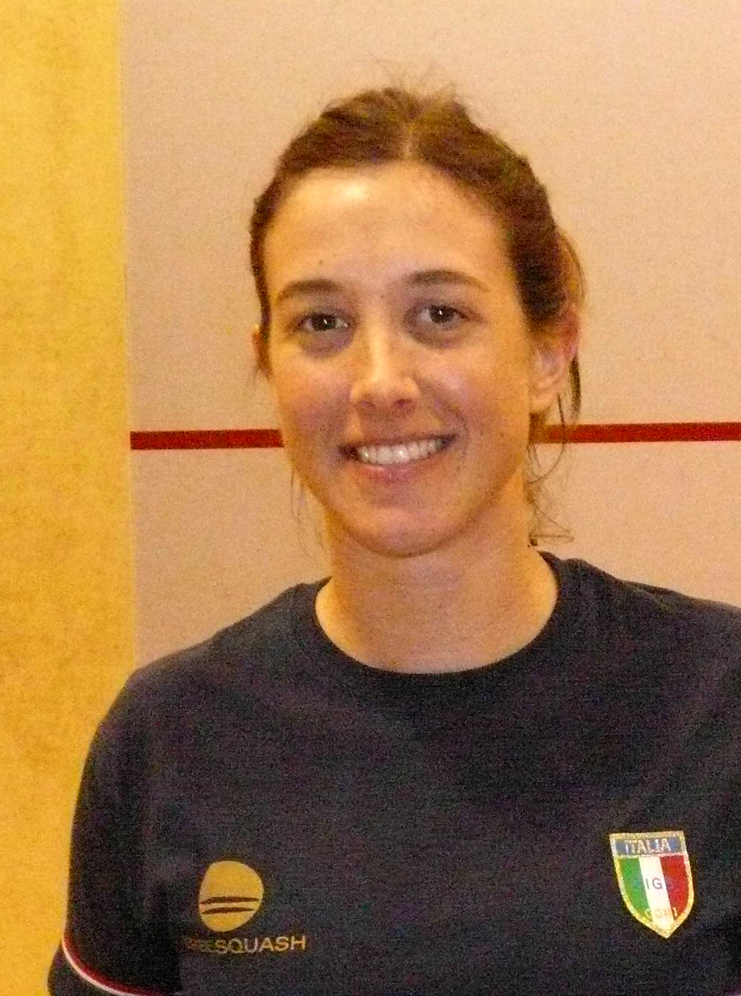 Manuela Manetta - Torneo Città d'Italia - Terni - 13/02/2011